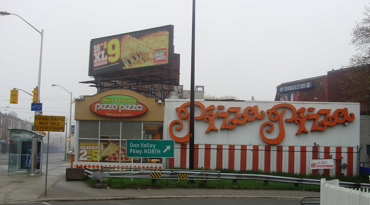 A Pizza Pizza restaurant in Toronto. Located at Broadview & Danforth, just east of an onramp leading to the Don Valley Parkway.